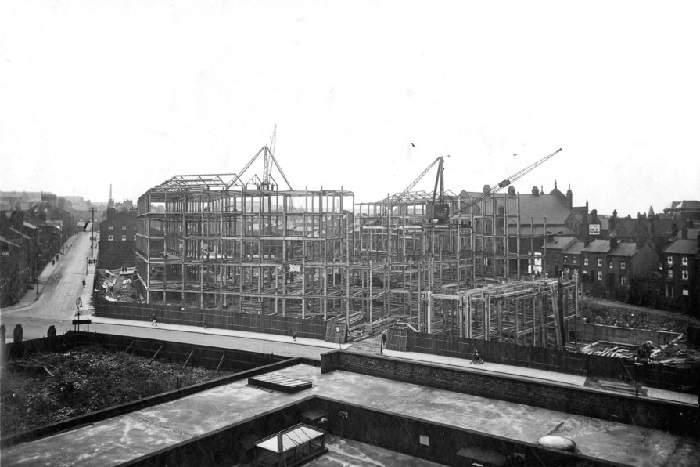 Calverley Street began to take on the appearance we know today when the Civic Hall was constructed to the designs of E. Vincent Harris in 1933 (1876-1971) after he had won a competition staged in 1926. Leeds Civic Hall was estimated to cost about £360,000 and the corporation proceeded it on the understanding that the Unemployment Grants Committee would contribute 75 per cent to labour costs. The building contract was awarded to Armitage & Hodgson of Leeds, which had carried out many important constructional contracts in the city, including the university and the new Devonshire Hall. A prestigious opening ceremony was undertaken by King George and Queen Mary on August 23, 1933. Many thousands gathered hours before the King and Queen were due to arrive and it later became apparent that the crowd was one of the biggest in the history of the city.